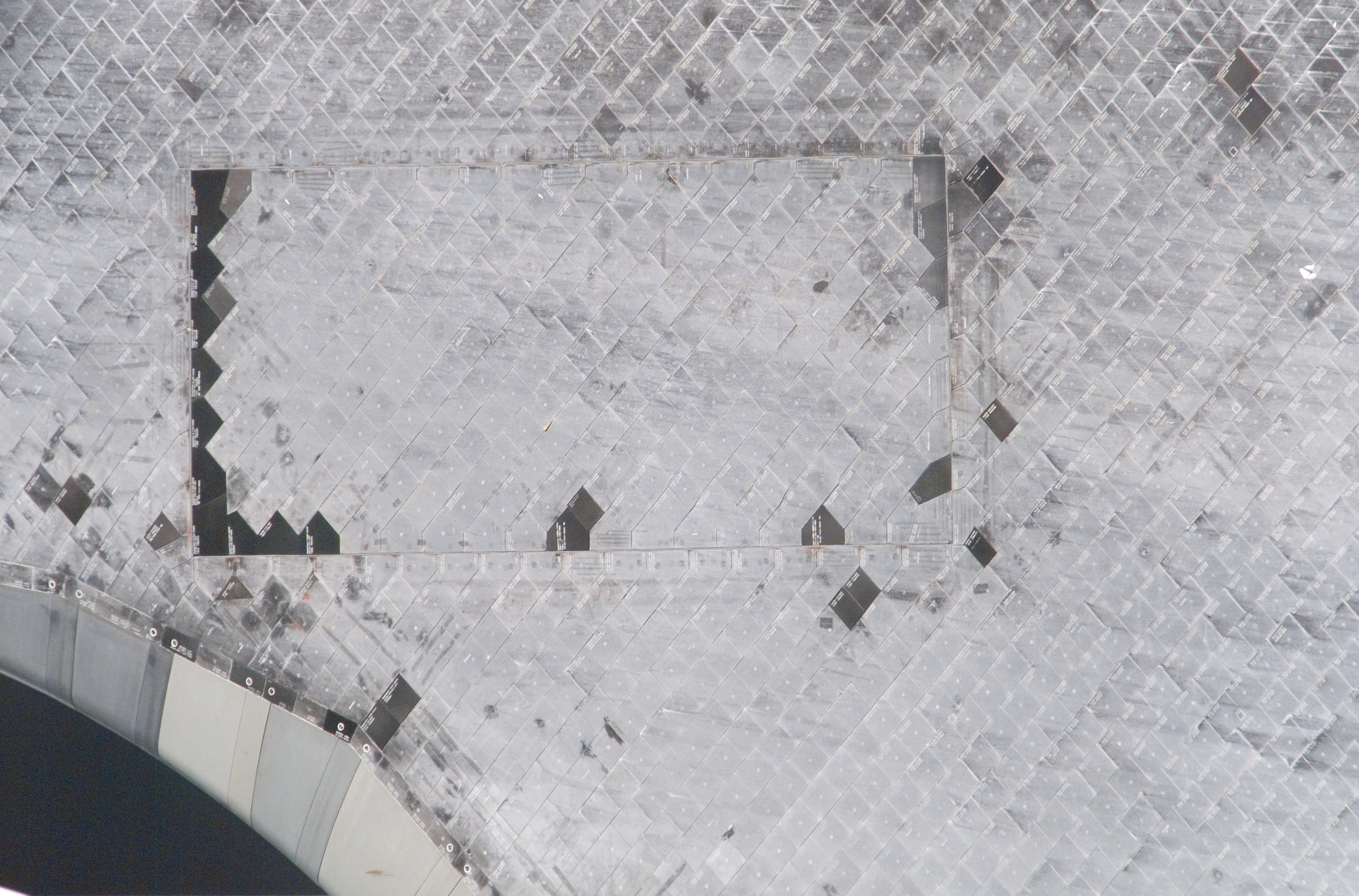 A gouge on Endeavour's belly NASA text: This photo of the underside of the Space Shuttle Endeavour was taken from the International Space Station during a back flip and careful survey by crewmembers onboard the orbital outpost. After ground studies, mission managers suspect debris came off Endeavour's external fuel tank one minute after liftoff on Wednesday and struck tiles on the shuttle's underside, near the right main landing gear door.